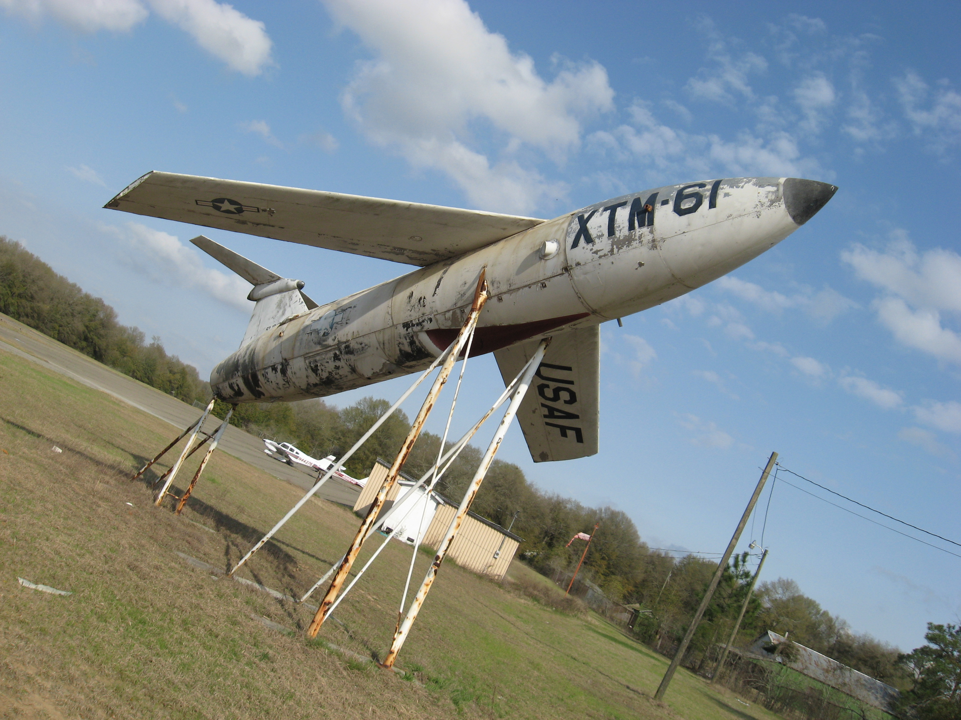 TM-61A cruise missile on static display at the Hawkinsville-Pulaski County Airport in Hawkinsville, GA